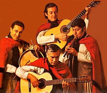 Los_Fronterizos. Cover Album "Los 25 años (1979) de Los Fronterizos". Members: Eduardo Madeo (left), Juan Carlos Moreno (down), Gerardo Lopez (right). Folk. Argentina.